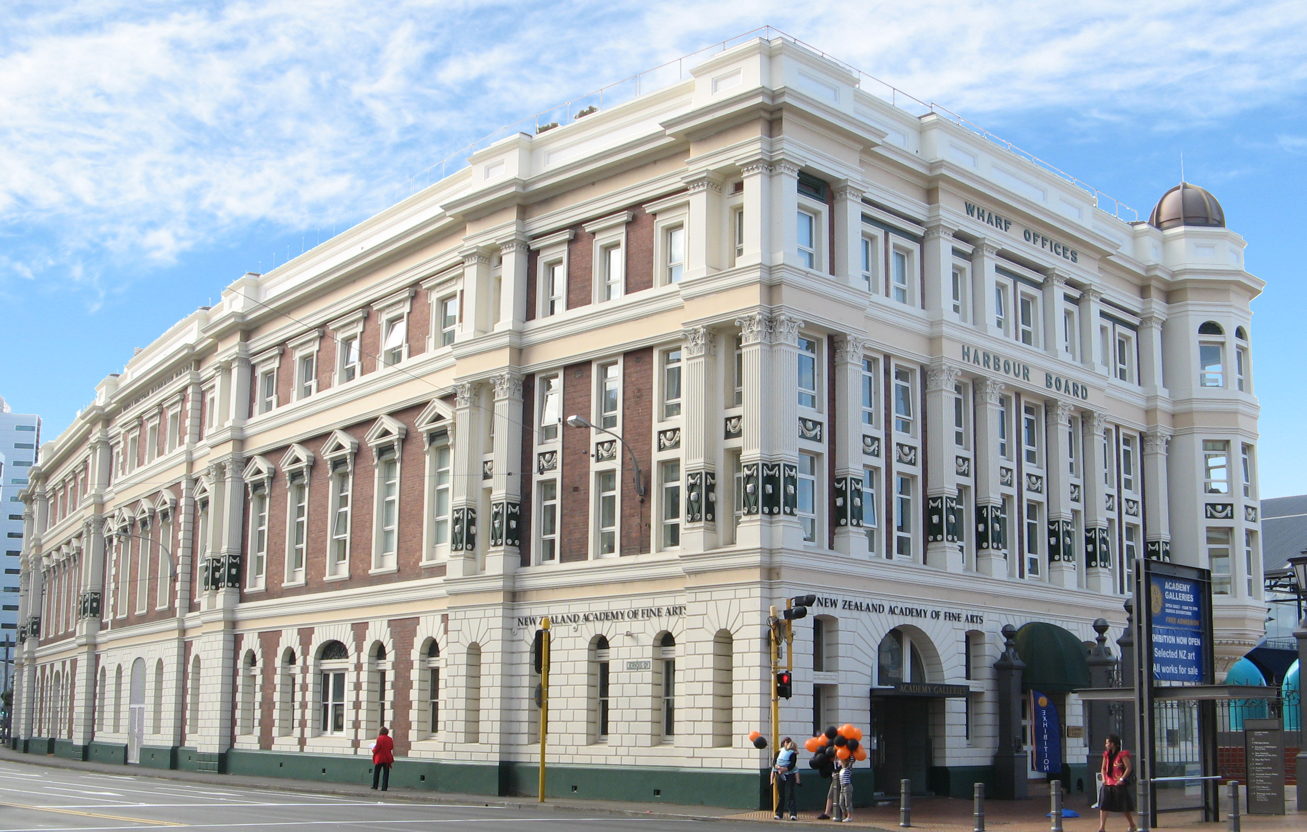 Wellington Harbour Board Wharf Office Building, New Zealand, taken by Lanma726. New Zealand Historic Places Trust Category I; register number 1446.